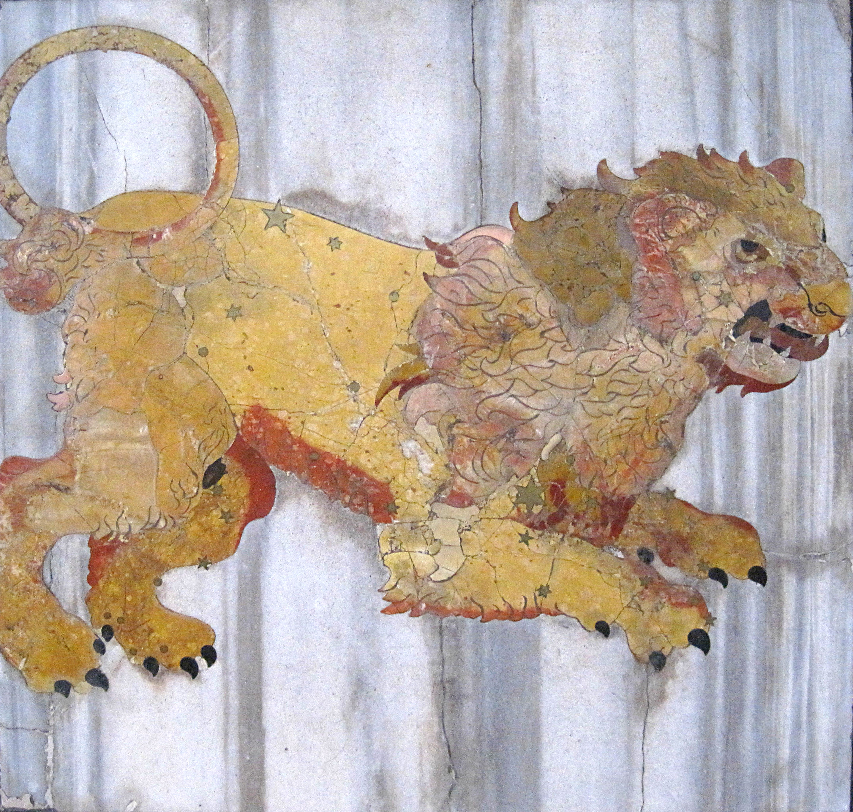 Zodiacal sign of the Leo on panel of white marble inlaid with colored marble (opus sectile) adorning one side of the Meridian solar line of Basilica Santa Maria degli Angeli e dei Martiri in Rome built by Francesco Bianchini (1702).